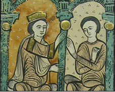 Liber Feudorum Maior - Miniature illustrating the moment when Count Ramón IV of Pallars Jussà and Ficapal, spouse of Sibila and vassal of the Count, reach an agreement on the castle of Guilareny and Vallferrera. Both characters, seated in a room with columns, and in areas differentiated by different colour backgrounds, shake on the agreement.